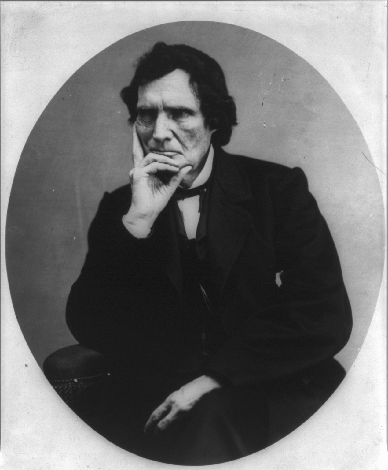 Thaddeus Stevens portrait.